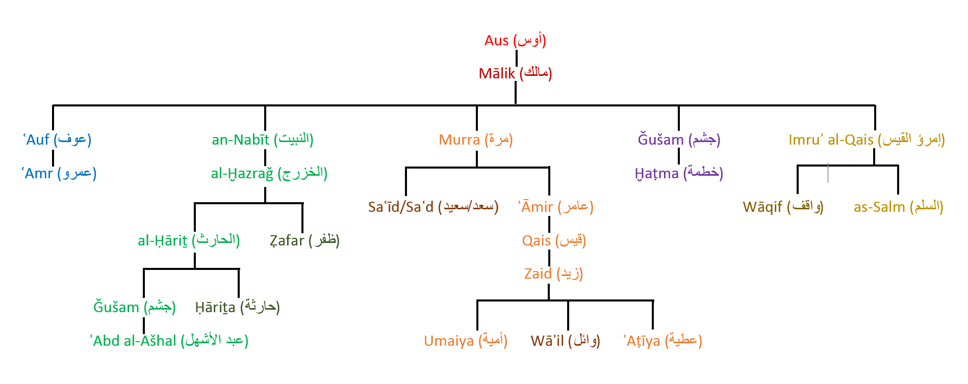 Lineage of the Aws, a Clan of Medina at the time of Muhammad